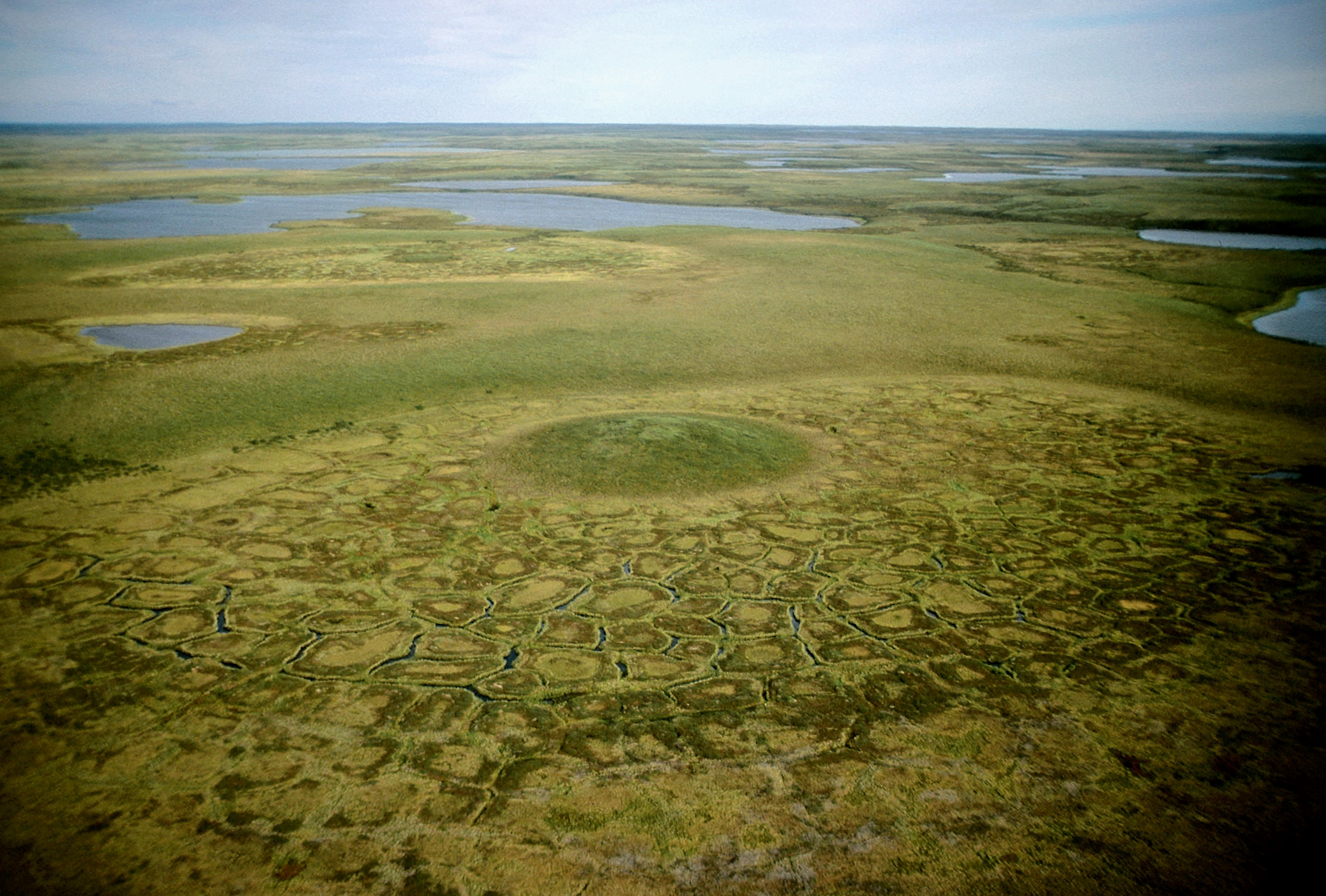 The Mackenzie delta is an area with thick continuous permafrost. However, unfrozen areas (taliks) may exist below the lakes shown. In the foreground, a small lake has been drained due to erosion (close to the coast). Ice-wedge polygons along contraction cracks slowly develop by the yearly freezing and melting cycles. A slowly growing pingo develops. Photo: Lorenz King, JLU_Giessen.de, August 8,1987